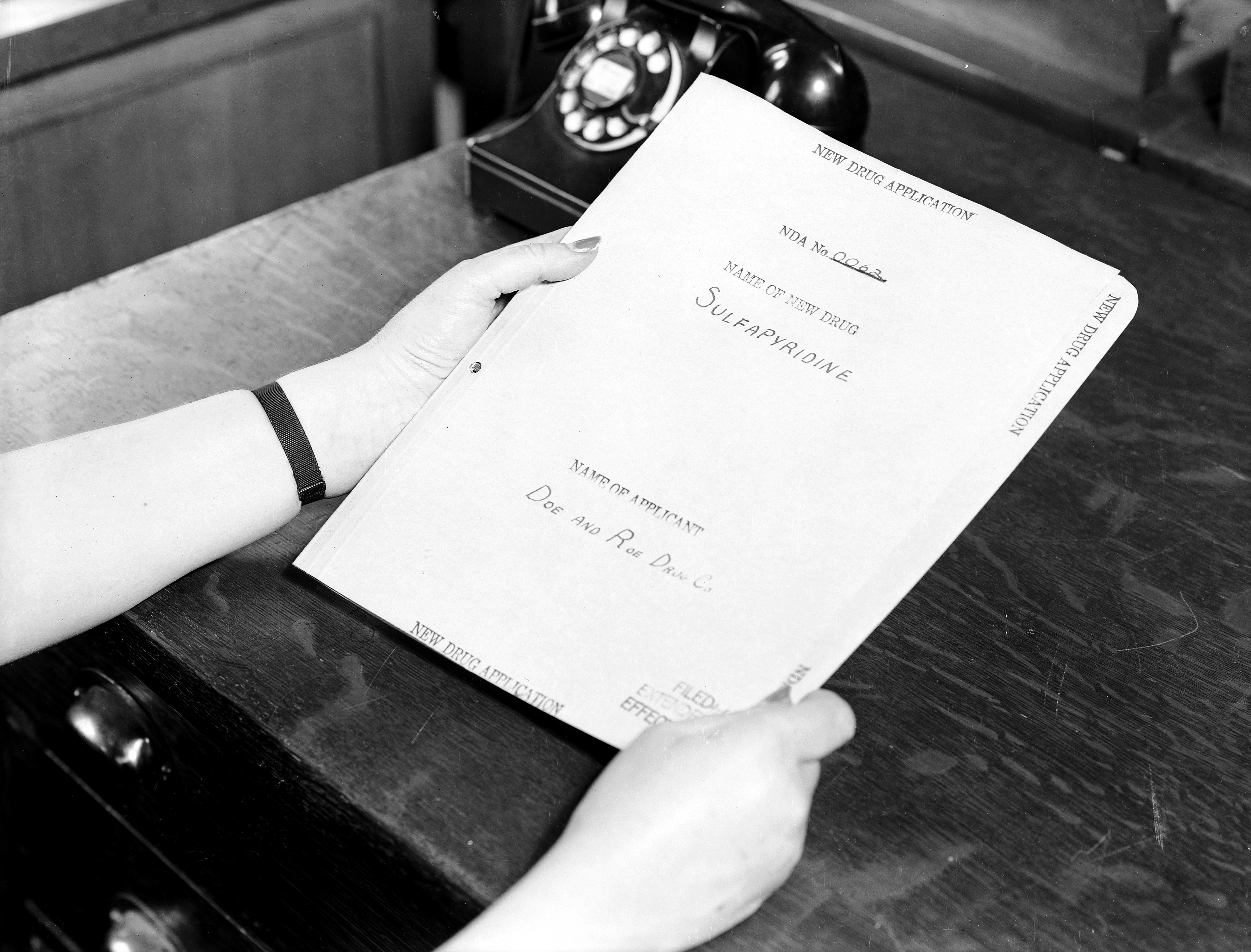 FDA came of age evaluating the new drug application for sulfapyridine, an anti-infective drug, shortly after passage of the 1938 Act. The agency, with the assistance of leading clinicians, insisted on safety evidence that would help establish conditions for approval. For more information about FDA history visit